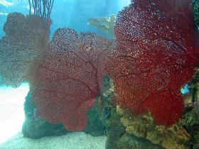 Sea fans in New York Aquarium